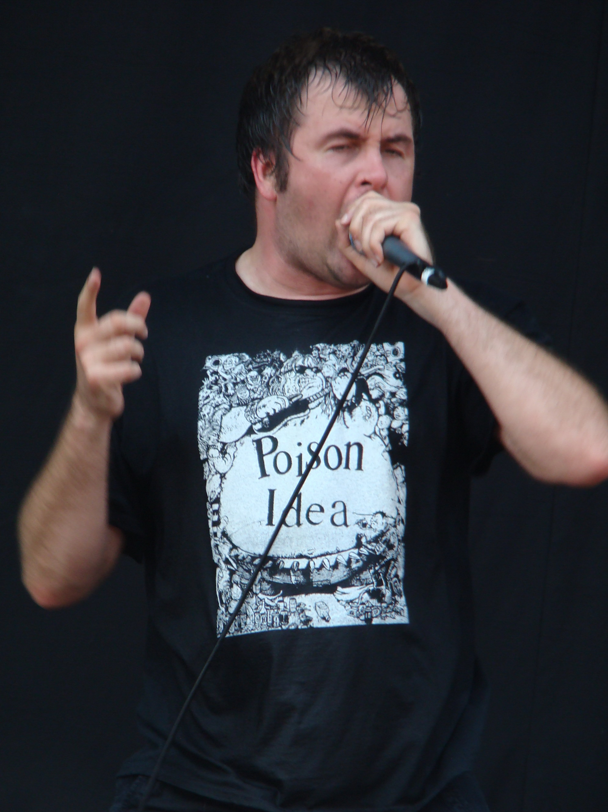 Mark "Barney" Greenway, vocalista de Napalm Death.